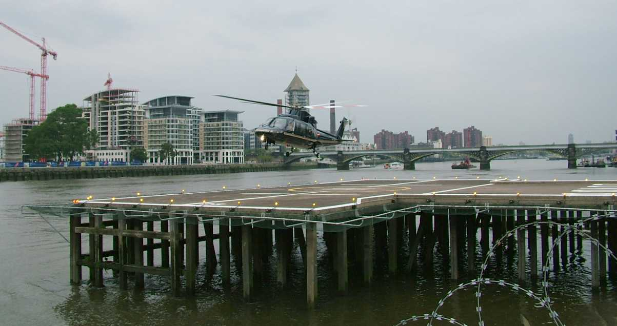 London Heliport - Battersea - London - Sikorsky S76A landing - evening - photo by and copyright Tagishsimon - 3 June 2004.